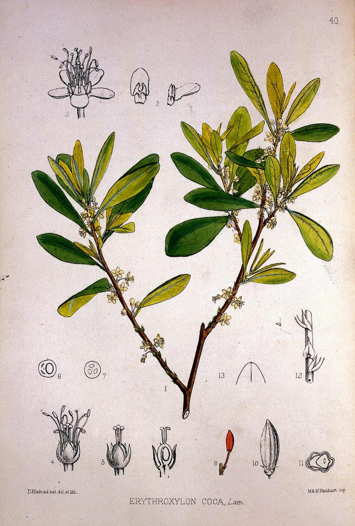 Erythroxylon Coca. General Collections Keywords: Materia Medica; Robert Bentley; Henry Trimen